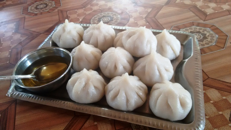 Ukadi Modak-a sweet dumpling stuffed with a filling of coconut and jaggery. Maharashtrian recipe - totally cooked in steam..yummy taste